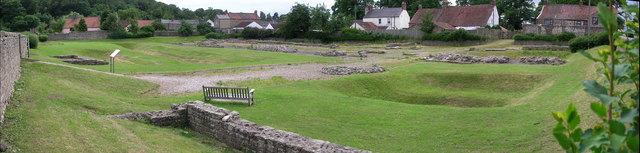 Roman Fort : Piercebridge.